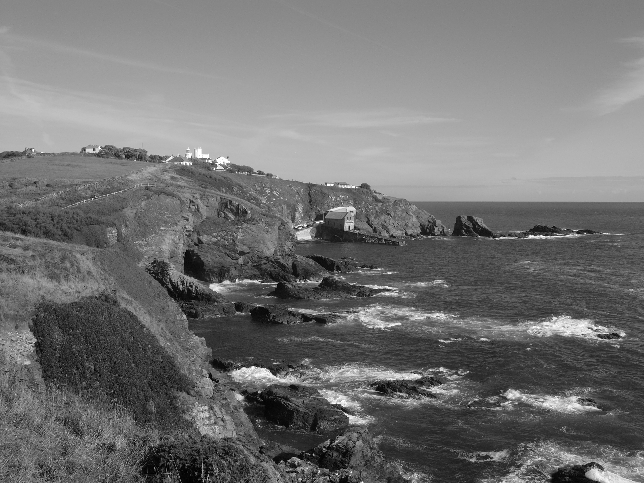 Lizard Point, Cornwall, the southernmost tip of Great Britain.